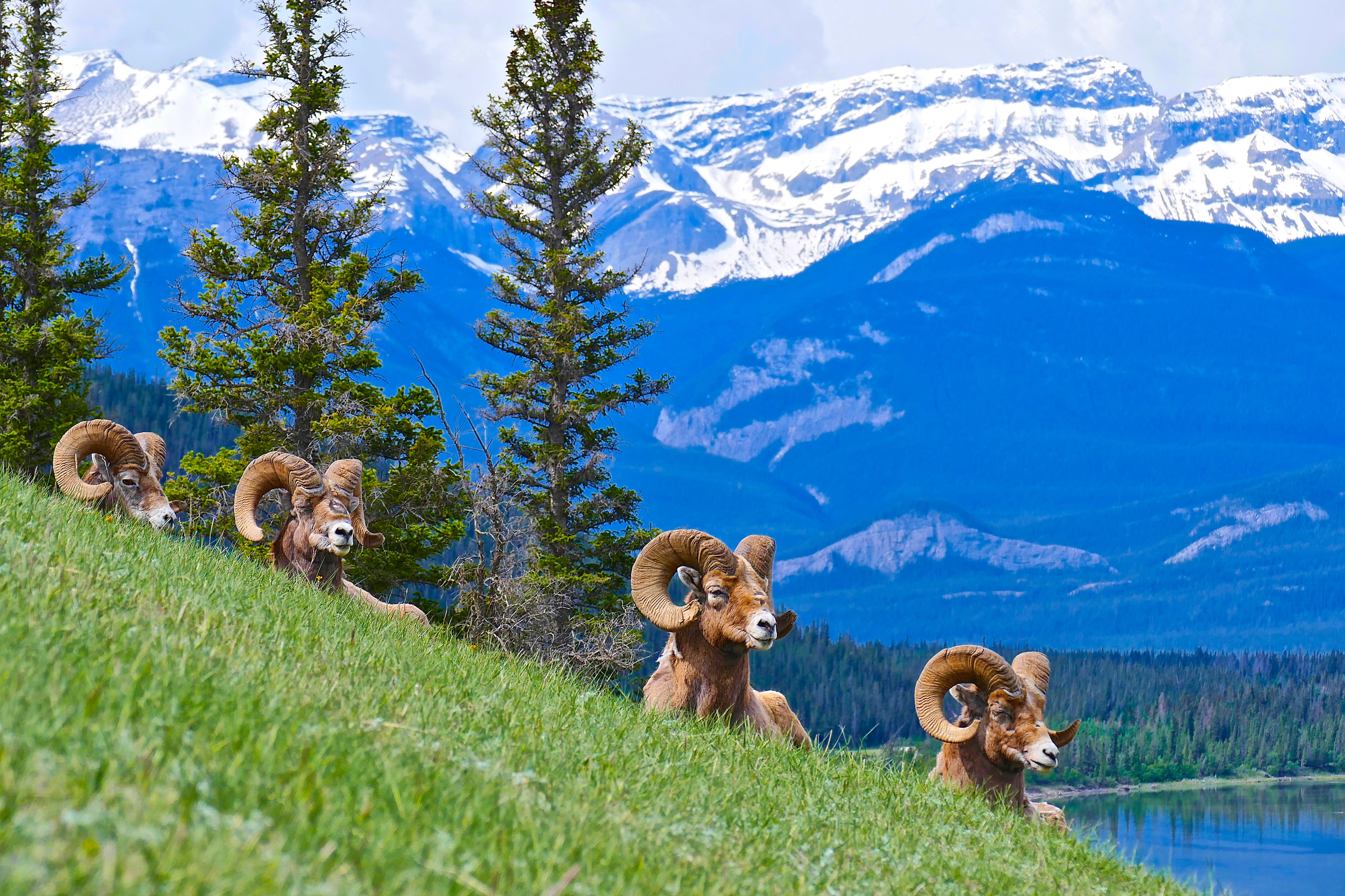 A small group of Big Horned Sheep rams relax on a hill high above the lake and with mountains in the background.